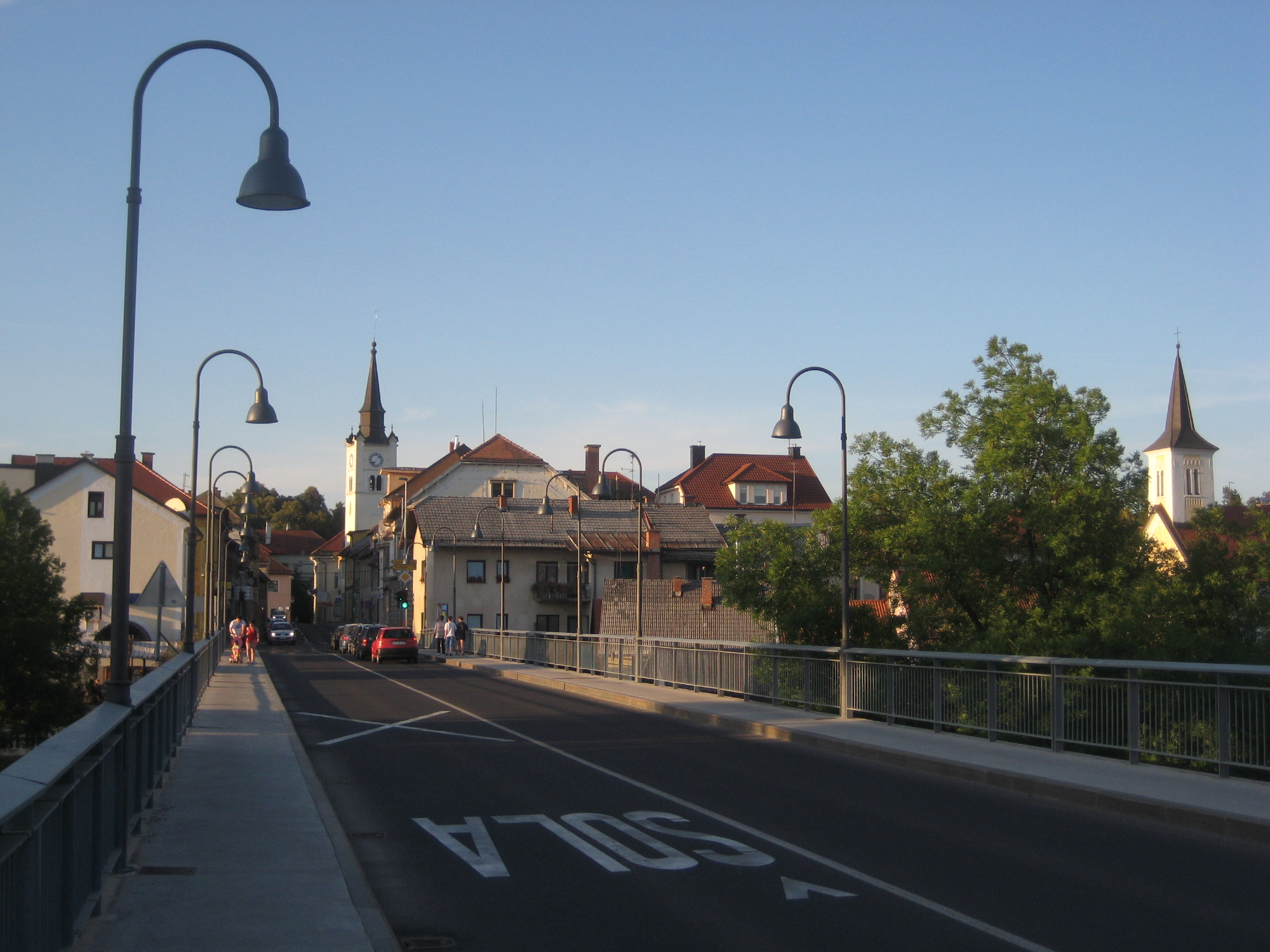 Črnomelj, town in Bela Krajina, Slovenia